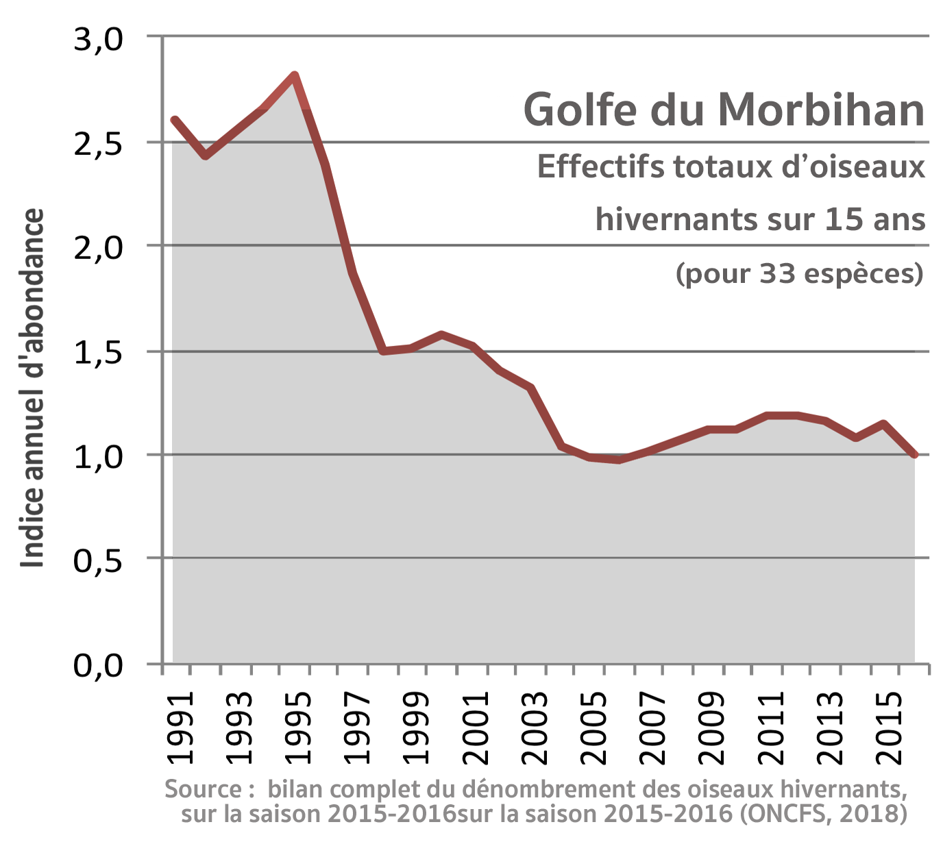 Curve counts of wintering birds in the French (Gulf of Morbilan, in Britain, Western France) from 1991 to 2015, showing a strong downward trend (-30% in 25 years). During this period and in this Gulf, the populations of anatidae and coots and divers collapse while the waders are stable (to see details: -2016.pdf).